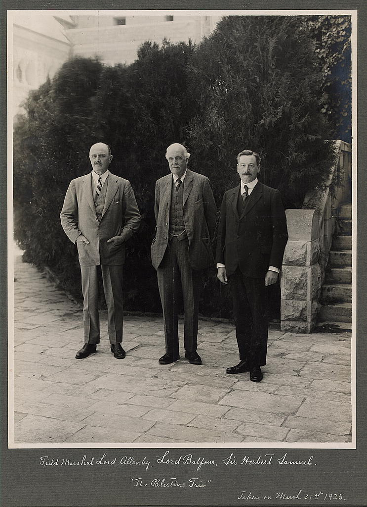 Field Marshall Lord Allenby, Lord Balfour, Sir Herbert Samuel. "The Palestine Trio." Taken on March 31st, 1925.